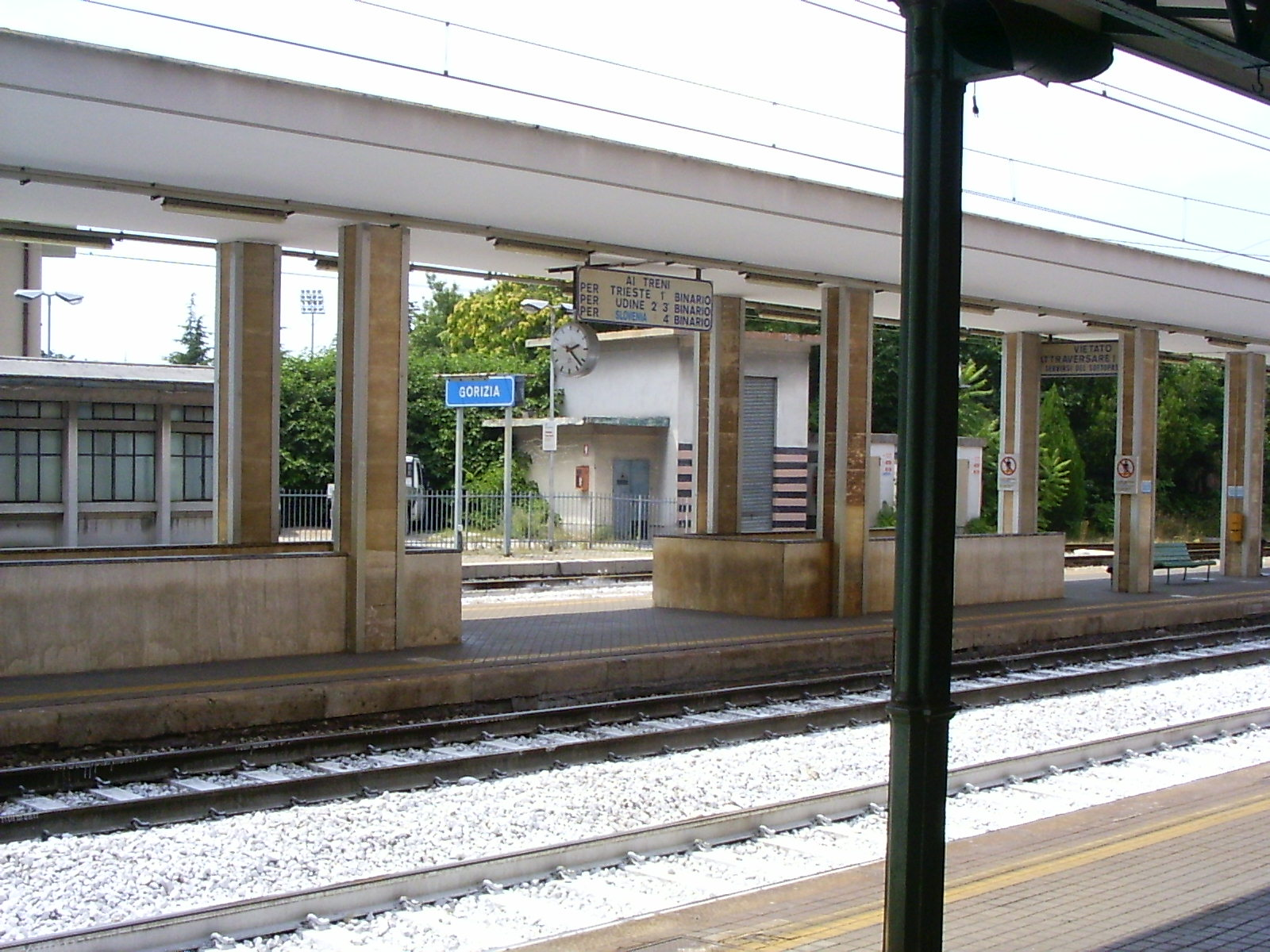 Platform of Gorizia train station